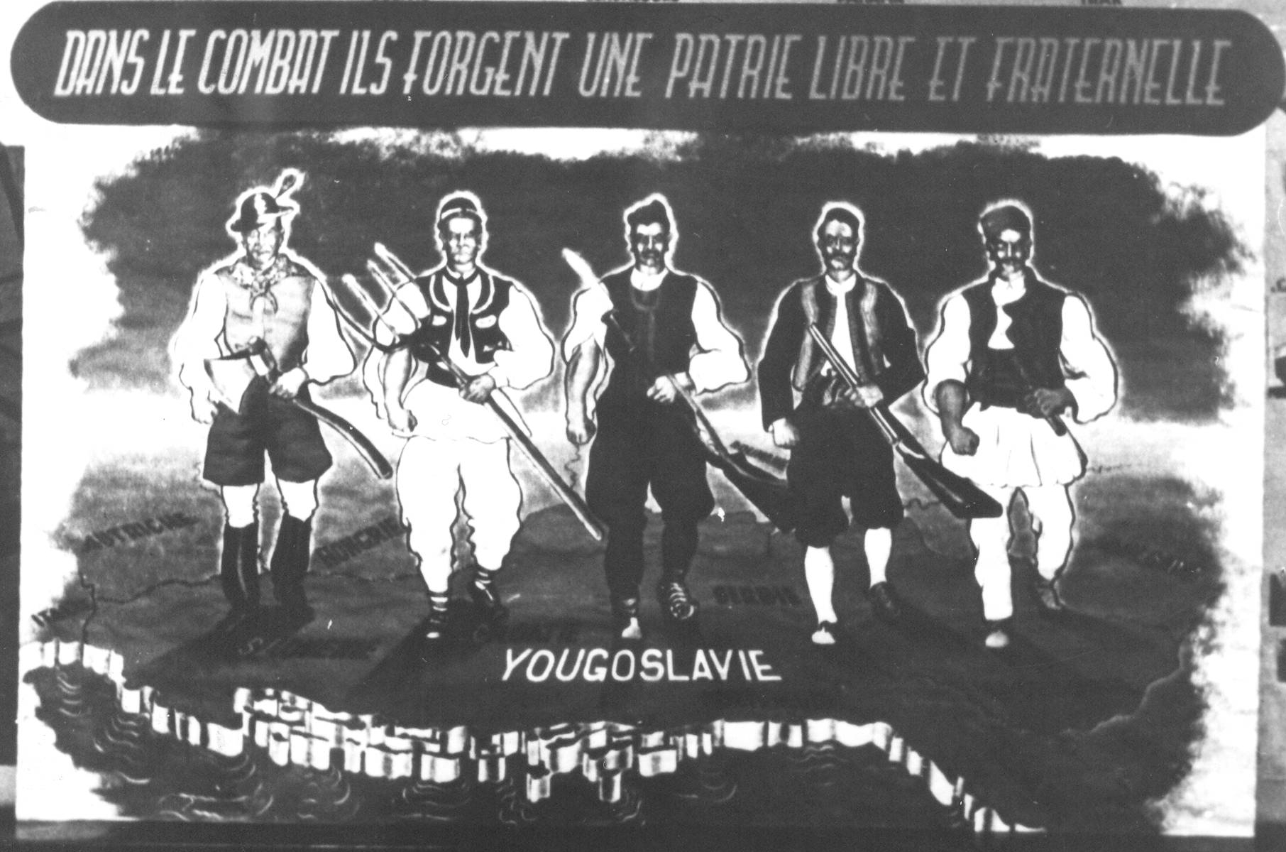 Illustration from the exhibition "Yugoslavia" held in Algeria on 8 February 1945 by a Yugoslav military mission. Srpskohrvatski / српскохрватски: "Dans le combat ils forgent une patrie libre et fraternelle" (U borbi je kovana domovina slobode i bratstva). Izložba "Jugoslavija"(detalj), koja ja održana u Savezničkom centru za dokumentaciju u Alžiru 8. II 1945. Izložbu je pripremio ing. Ivan Vanja Žanko. Dokumentarni materijal dobijen od članova Jugoslovenake vojne misije na čelu sa Vladimirom Velebitom, prilikom posete Alžiru, krajem aprila 1944. Muzej Istorije Jugoslavije, Inv.br. 13466. II sv rat. autor nepoznat.